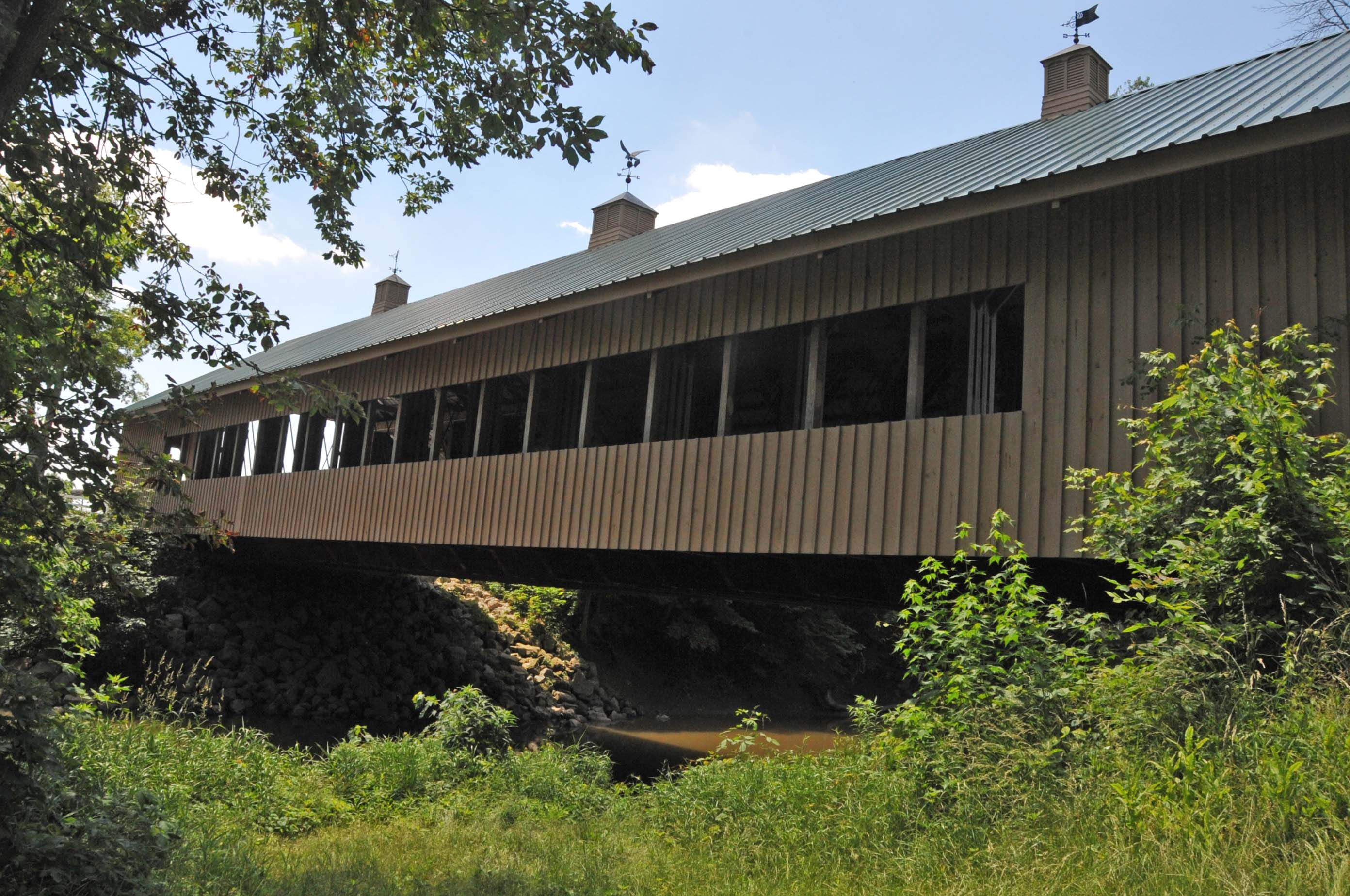 2004 PRATT truss covered bridge, 130 FEET OVER THE ST. JOSEPH RIVER